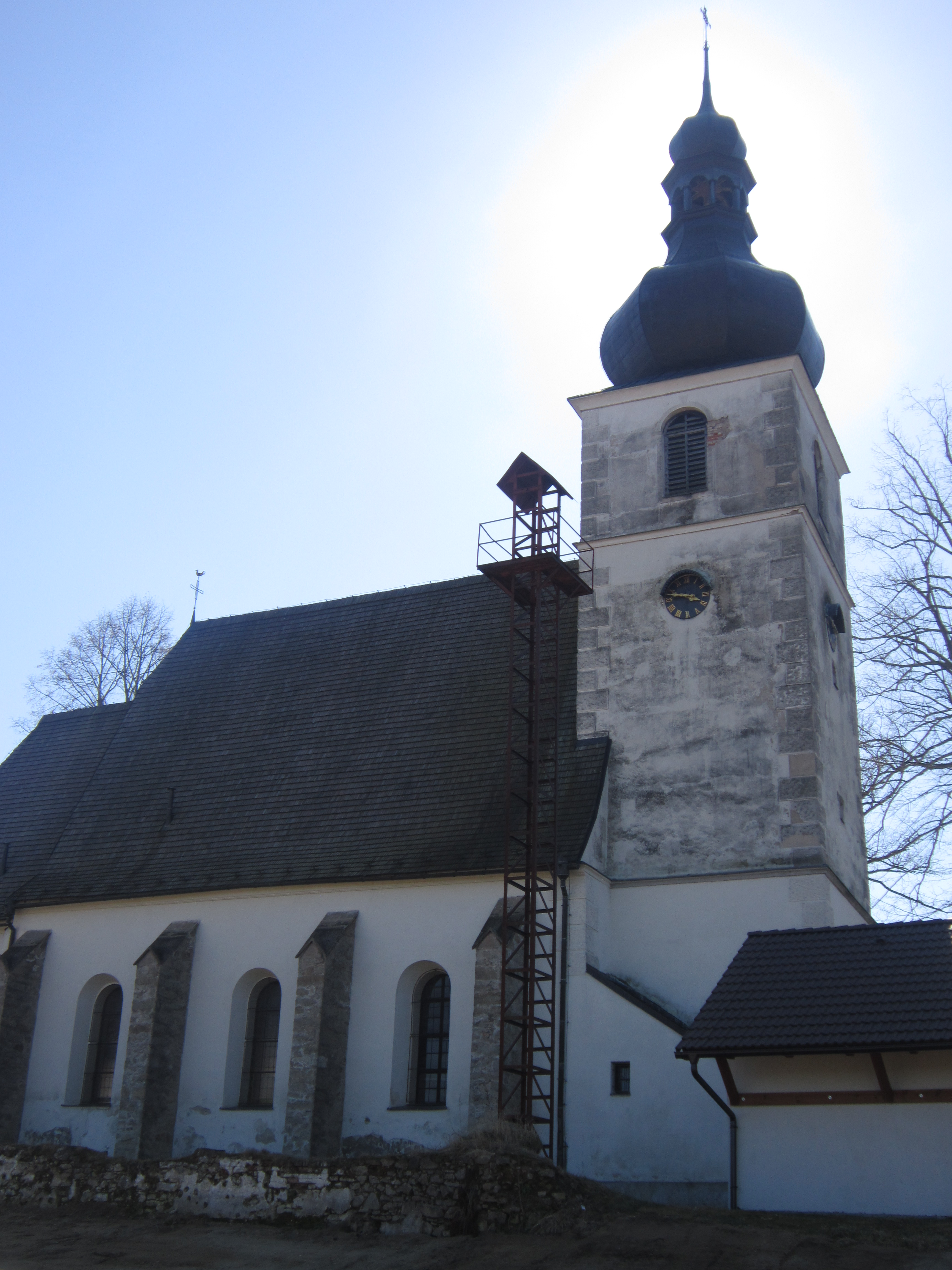 Saint Giles Church in Rychnov u Nových Hradů.